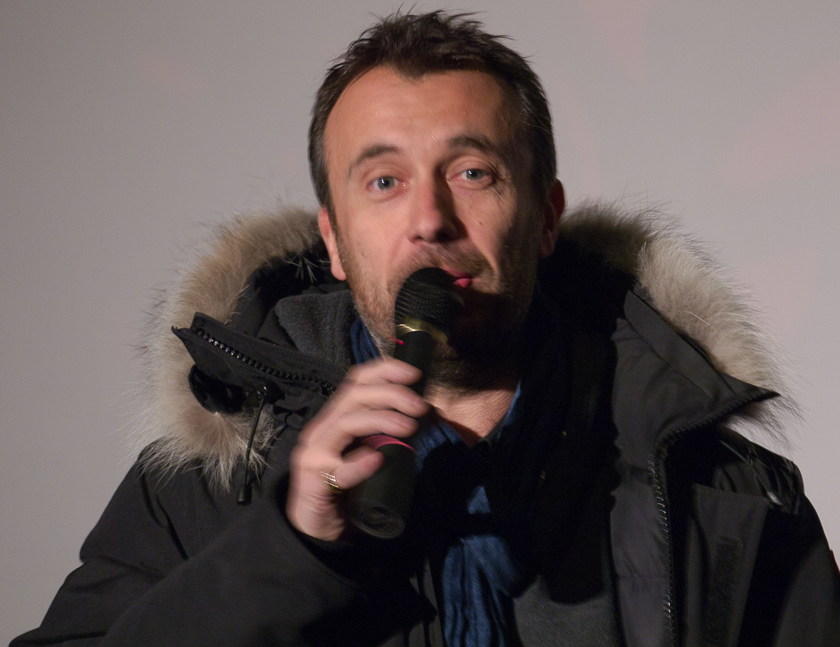 Fred Cavaye